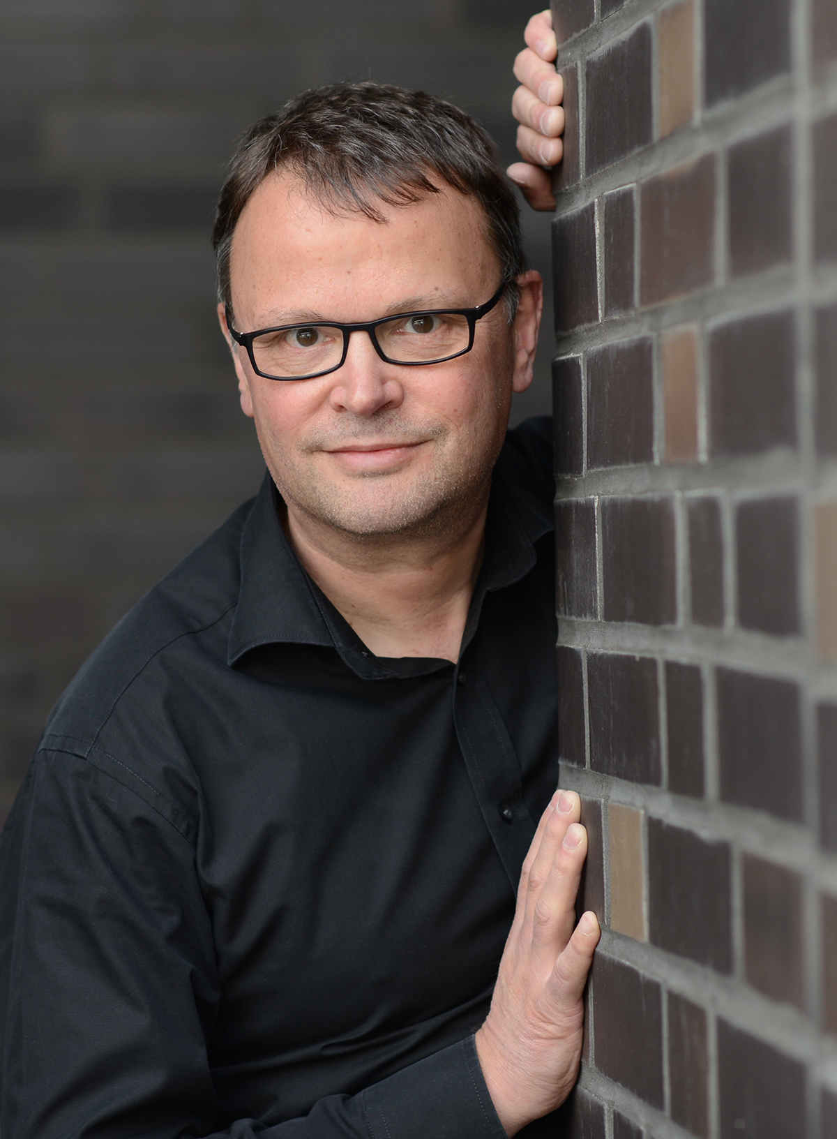 Peter Brunnert - German mountain climber and authorEsperanto: Peter Brunnert - germana montogrimpisto kaj aŭtoro